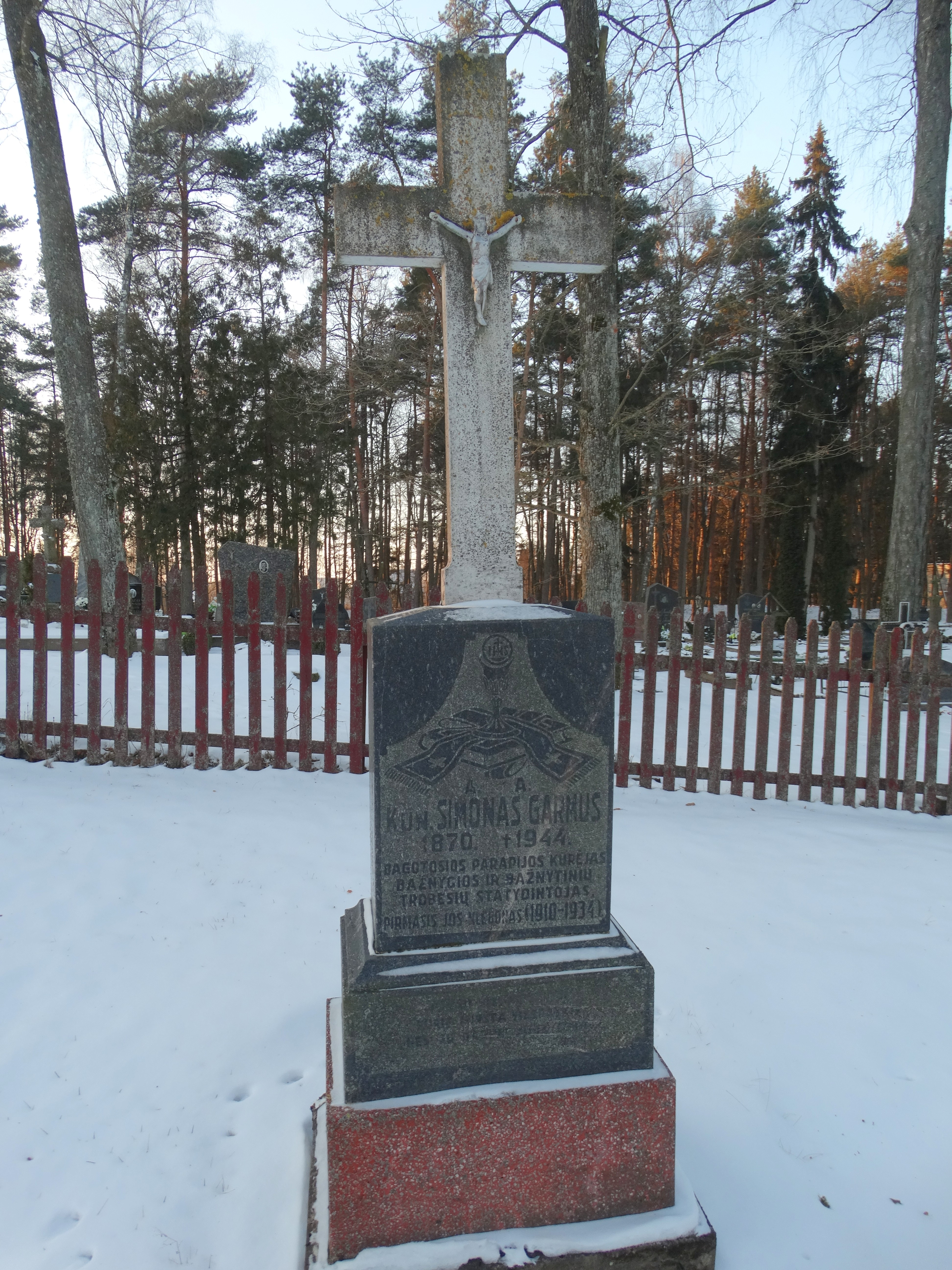 Simonas Gamus (1870–1944), Bagotoji, Kazlų Rūda Municipality, Lithuania